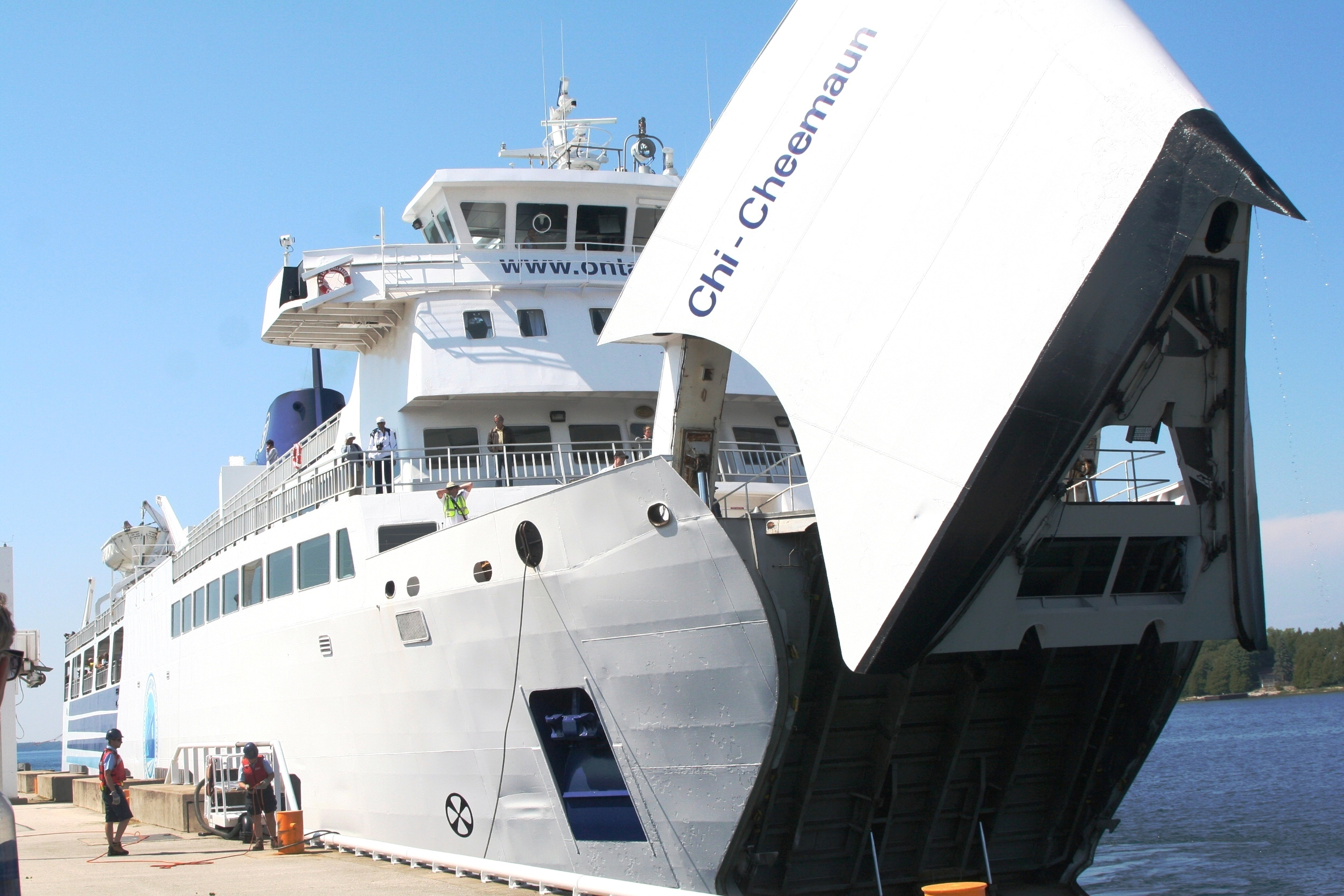 ferry from Tobermory to Manitoulin Island in Ontario Canada.